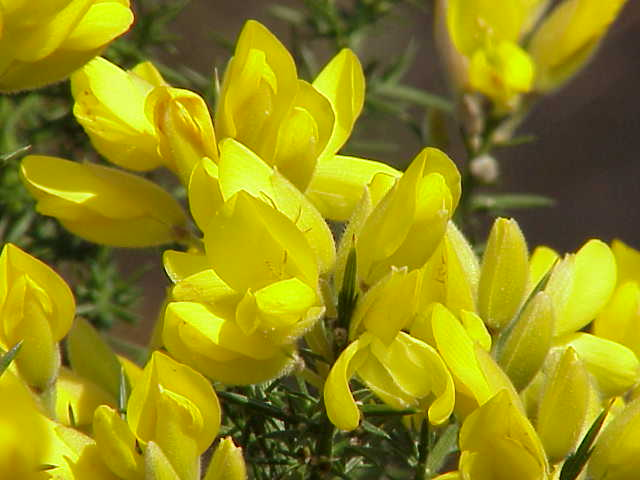 Species: Ulex europaeus Family: Fabaceae Image No. 4